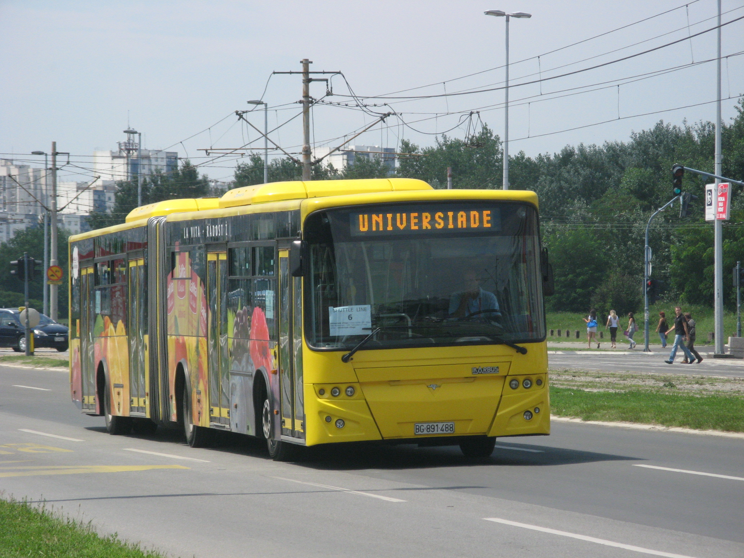 Belville: 2009 Summer Universiade, Belgrade; Special bus for transporting volunteers.